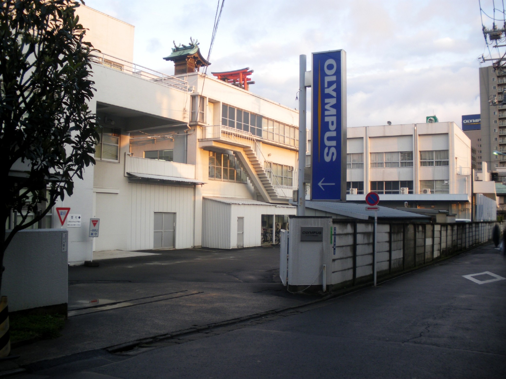 Olympus head office(Hatagaya,shibuya,Tokyo)